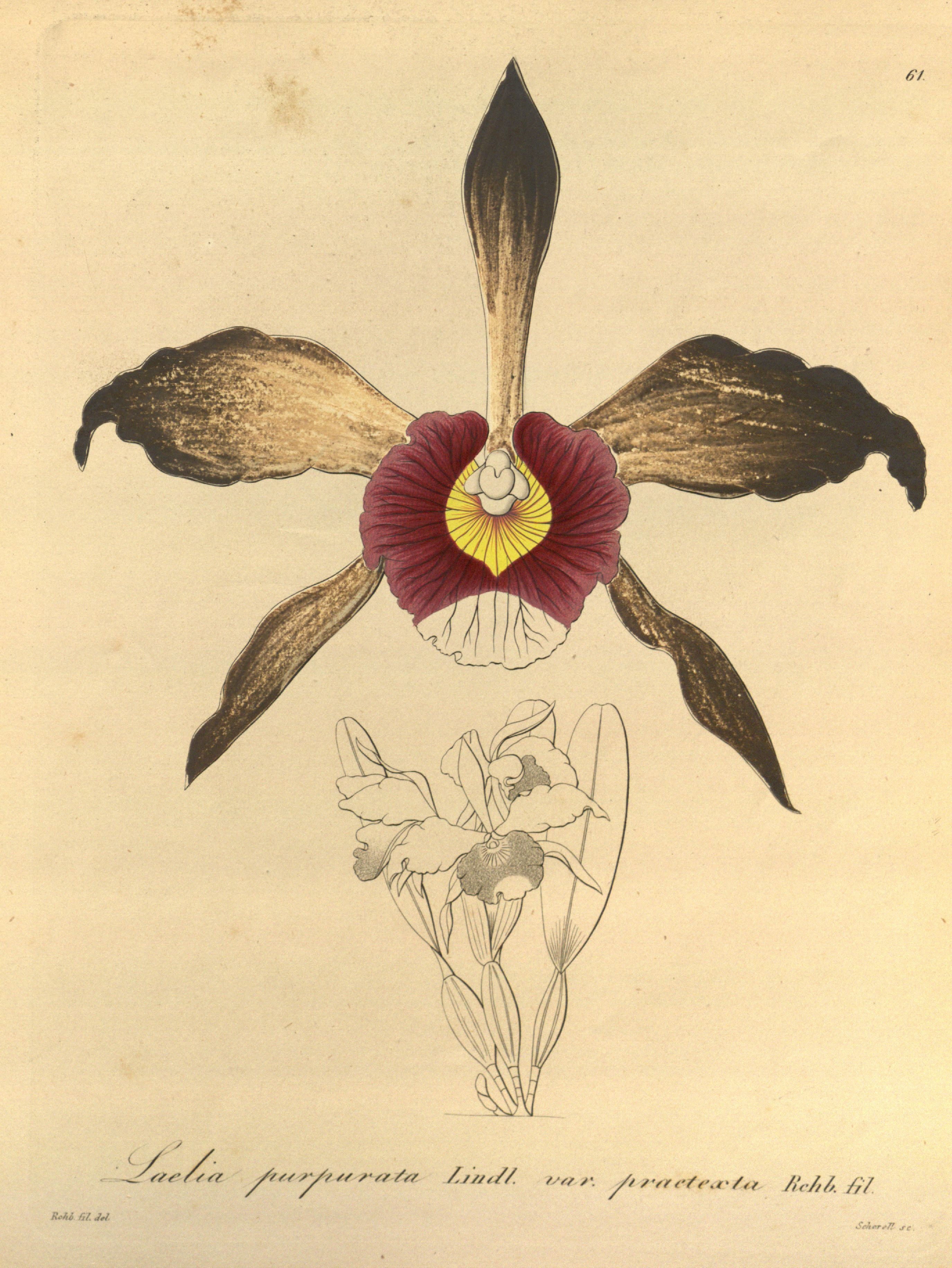 Illustration of Bletia purpurata (as syn. Laelia purpurata var. praetexta)